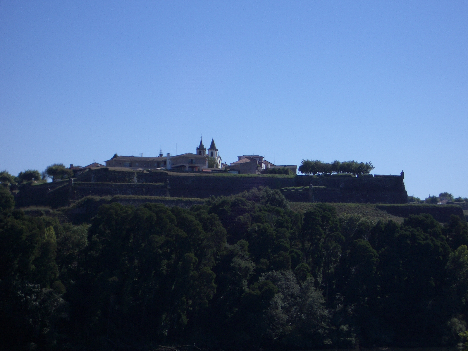 Valença, in the north of Portugal